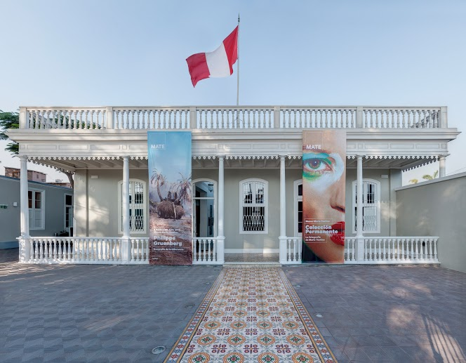 MATE - Museo Mario Testino